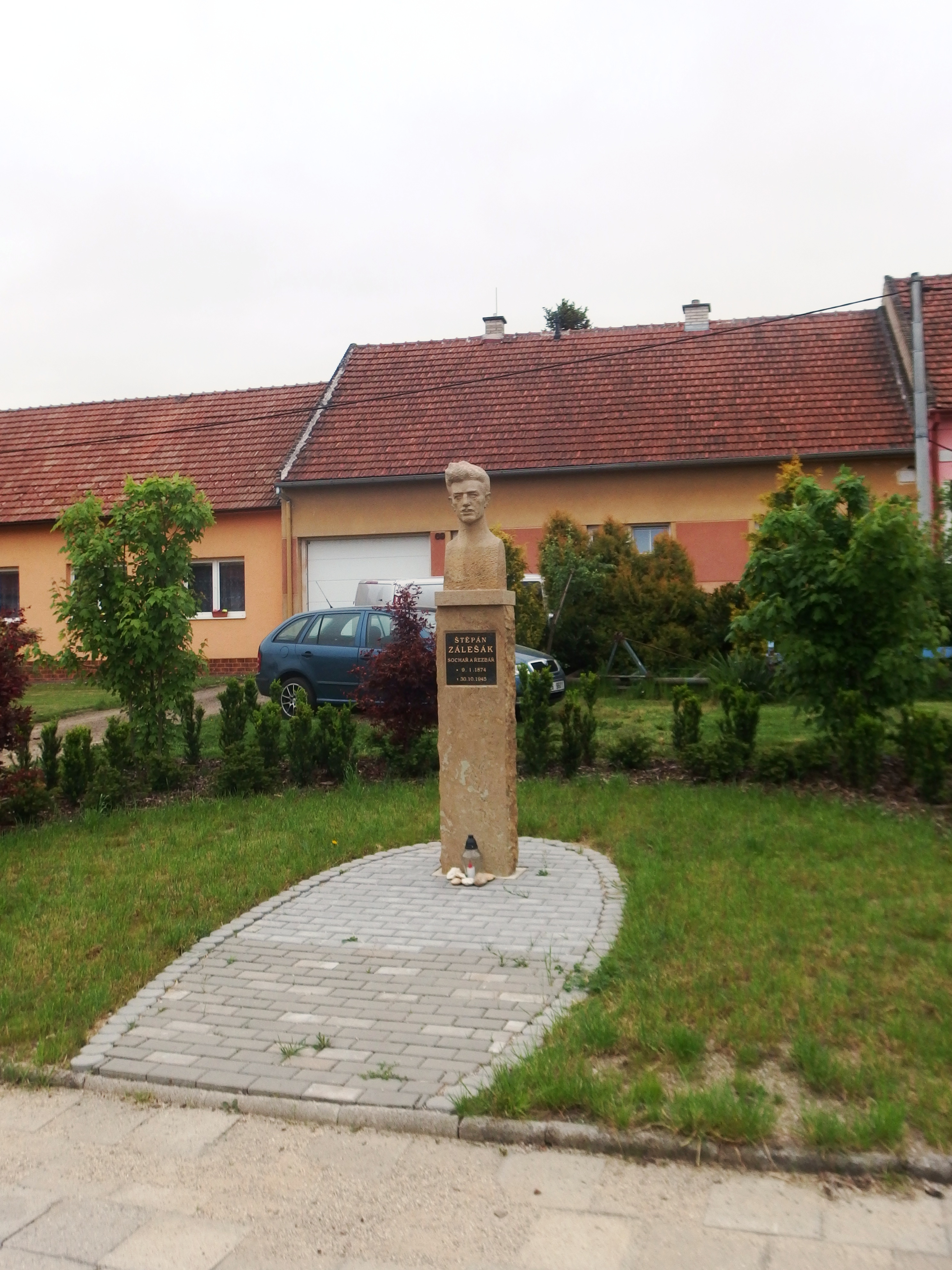 Bánov, Uherské Hradiště District, Czech Republic.